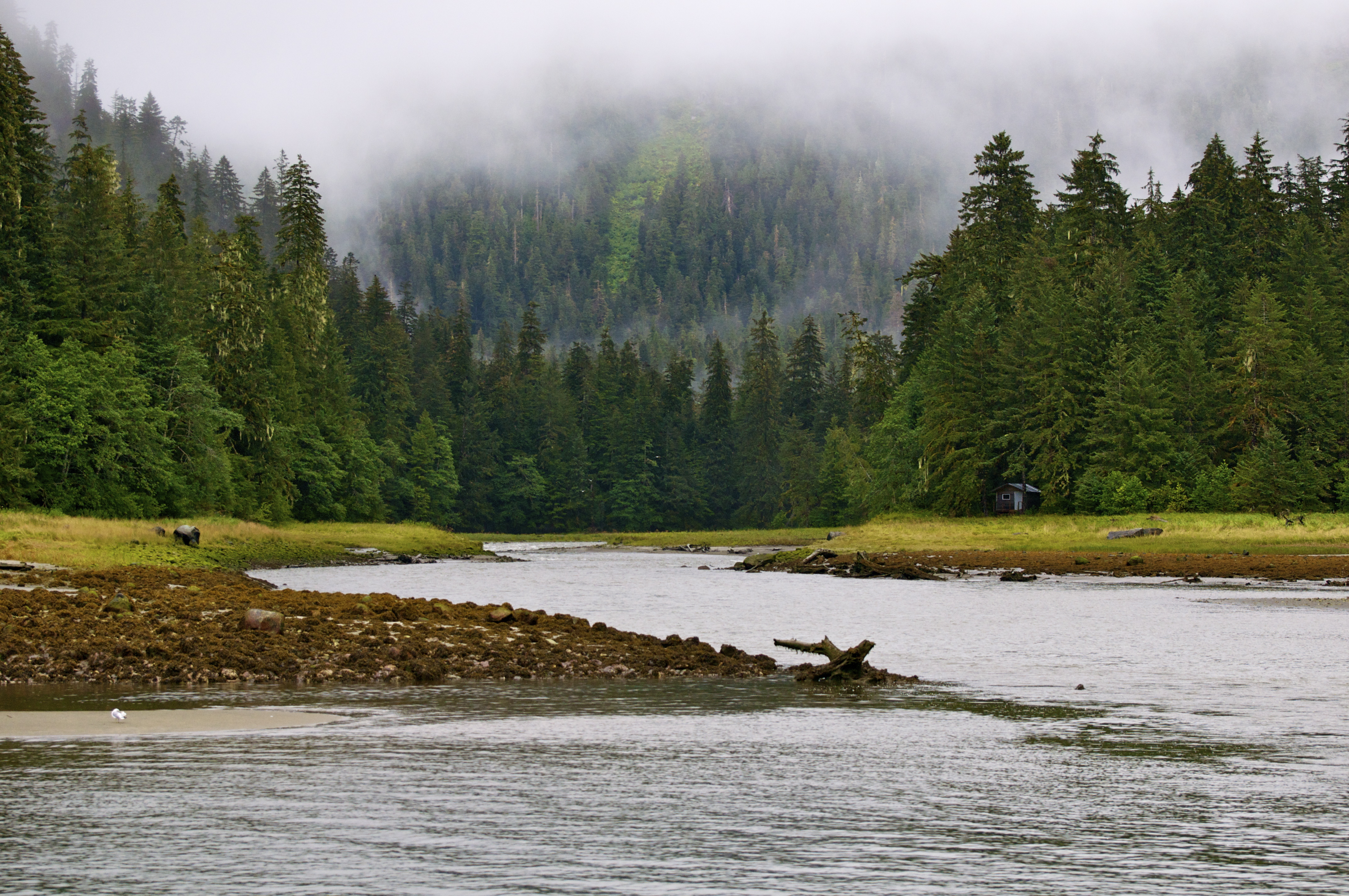 Day 3 - Anchor at Brim River